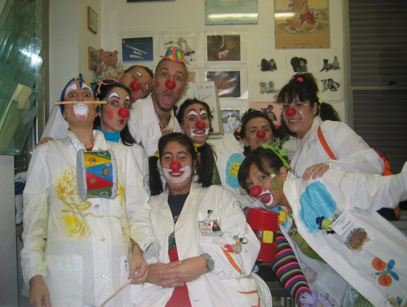 A clown care group at service at the hospital Bambin Gesù in Italy, december 2005.